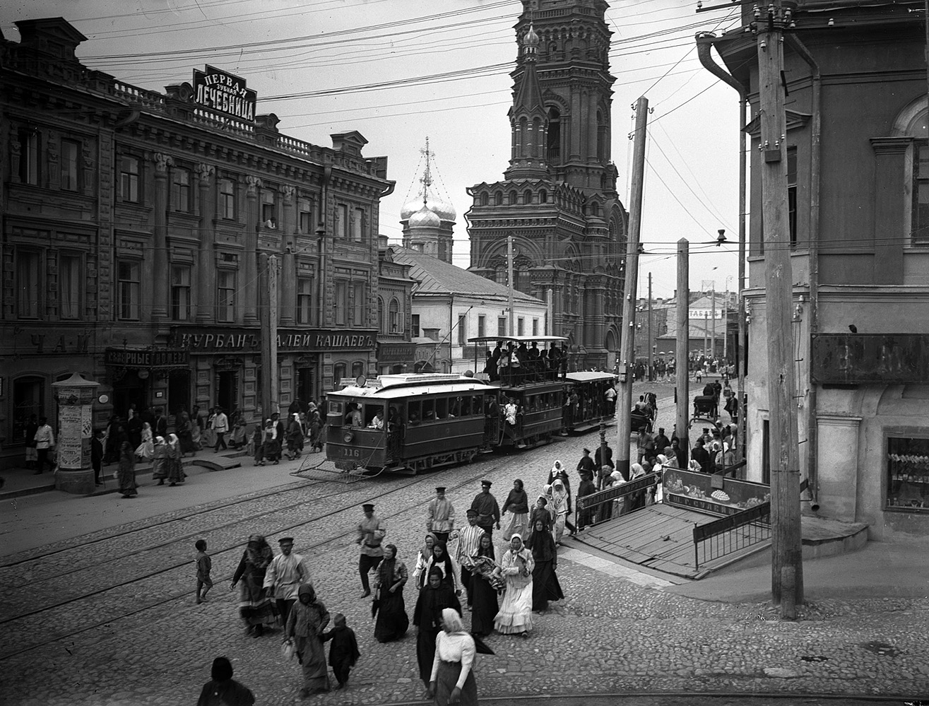 Bolshaya Prolomnaya street in Kazan, Russia, circa 1910